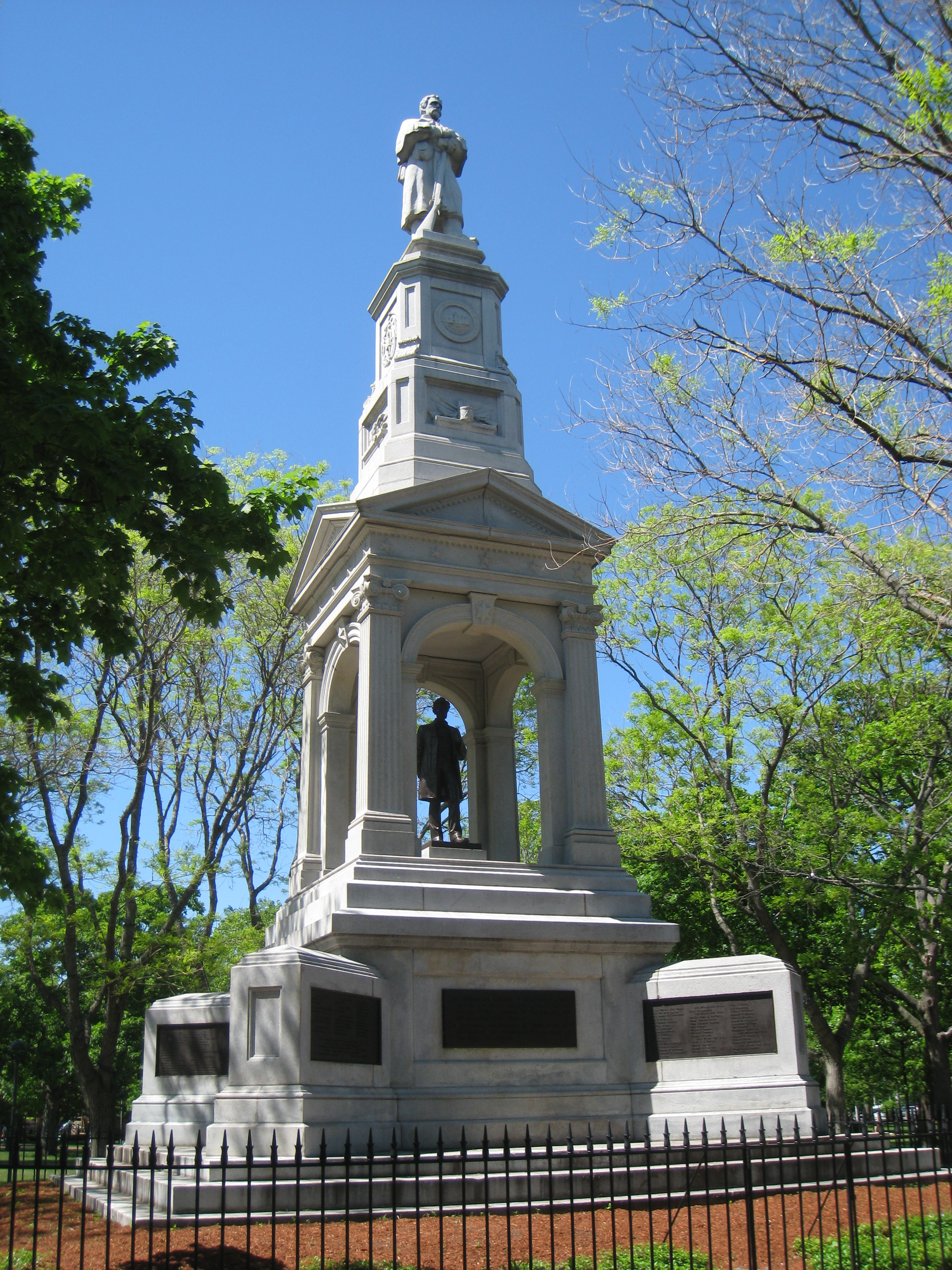 Cambridge Civil War Memorial, on the commons, Cambridge, Massachusetts, USA. Installed 1869-1870. Dedicated 1870. Figure of Lincoln cast 1887. Artists were Saint-Gaudens, Augustus, 1848-1907, sculptor. Cobb, Cyrus, 1834-1903, designer. Cobb, Darius, 1834-1919, designer. Silloway, T. W., architect. McDonald & Mann, contractor. Information derived from Smithsonian Institute entry (